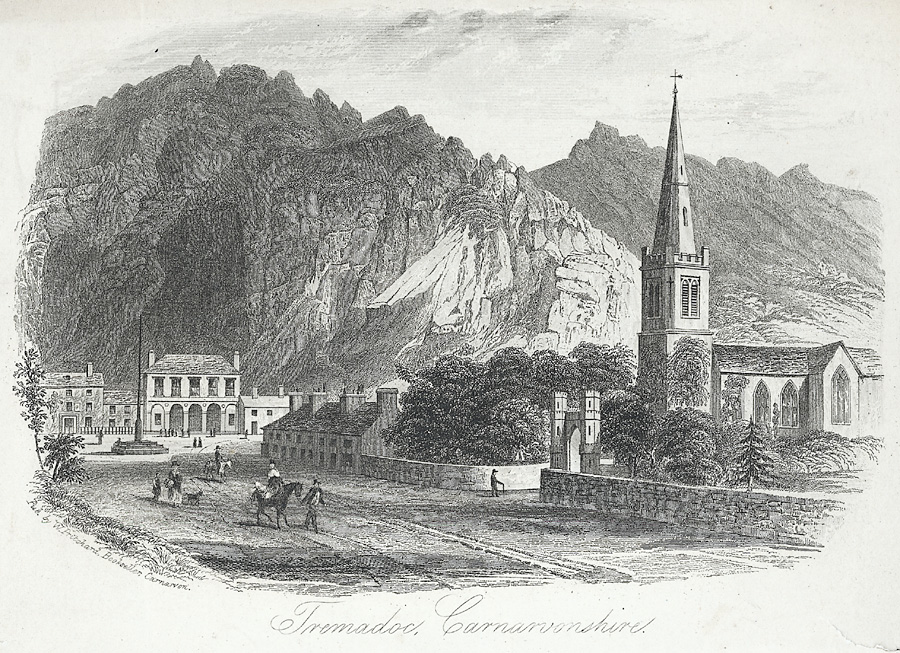 A view of the square in Tremadog, showing people walking along the road, and St Mary'sChurch.